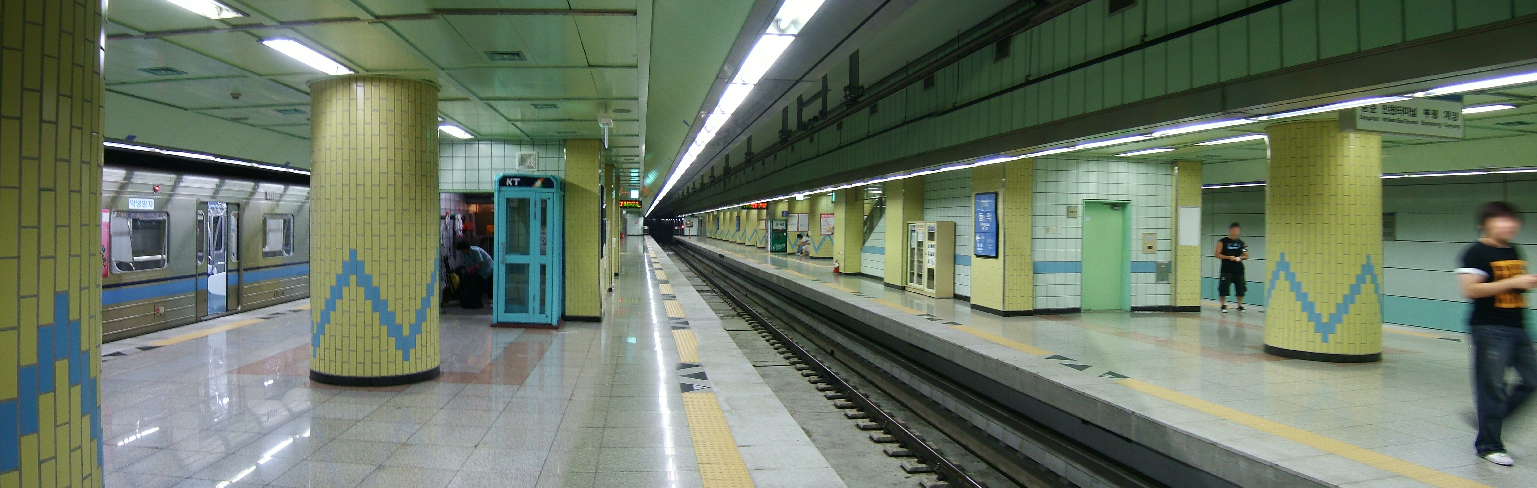 The platforms at Dongmak Station on the Incheon Subway Line 1